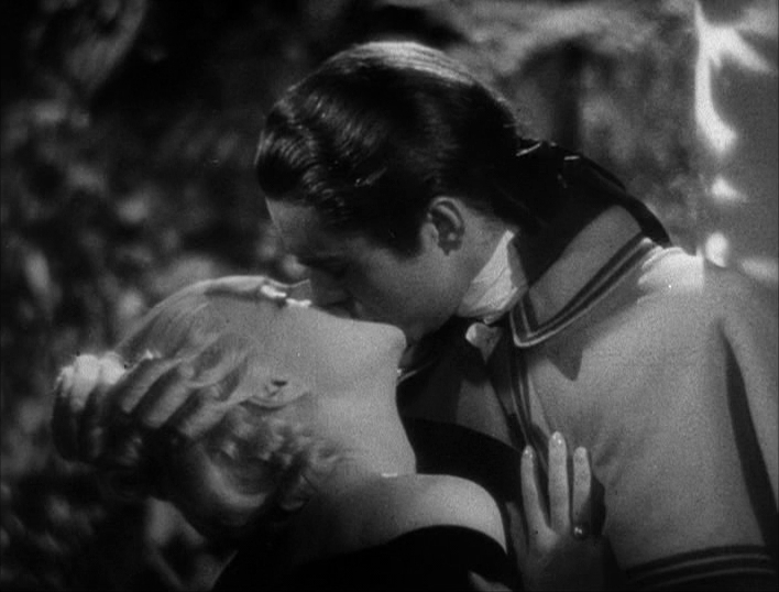 Cropped screenshot of Norma Shearer and Tyrone Power from the trailer for the film Marie Antoinette.